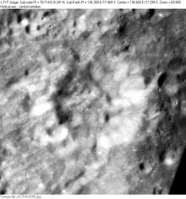 Bondarenko crater